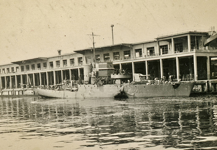 GER UJ 2225 (ex Ardea, prob) 28-05-44 (Genova 1944) MM MG